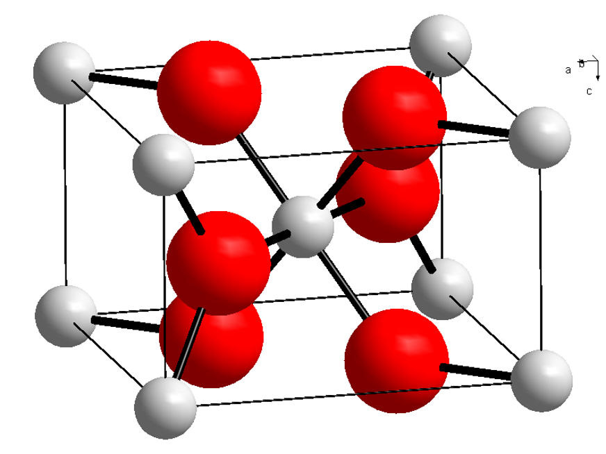 Crystal structure of Titanium dioxide (Rutile